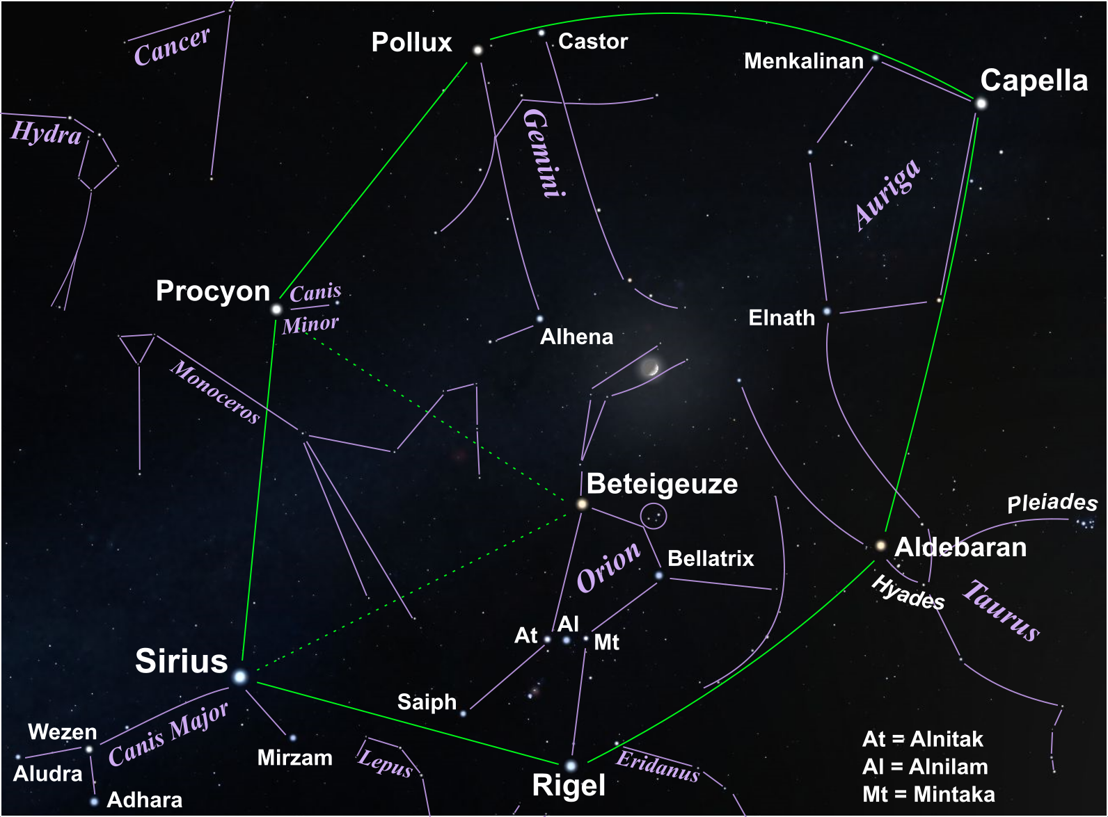 The Winter Hexagon and the Great Southern Triangle formed by Sirius, Procyon, Pollux, Capella, Aldebaran and Rigel with Beteigeuze and, incidentallly, the Moon within. All stars of an apparent magnitude of at least 2 mag are labelled.